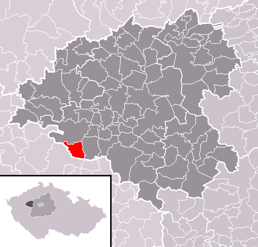 Location of Břežany municipality within Rakovník District and (identical) administrative area of Rakovník as a Municipality with Extended Competence.